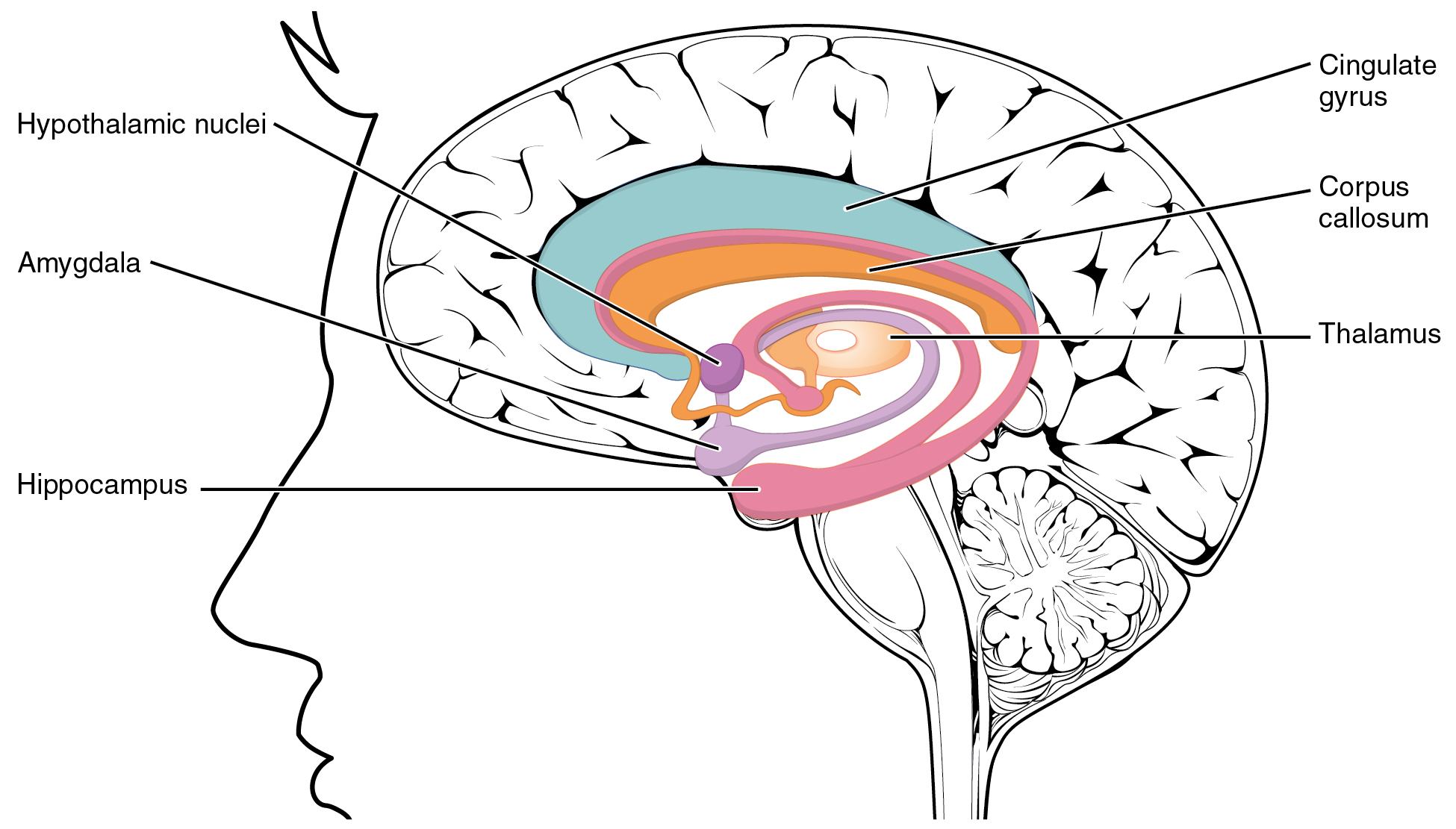 Illustration from Anatomy & Physiology, Connexions Web site. Jun 19, 2013.